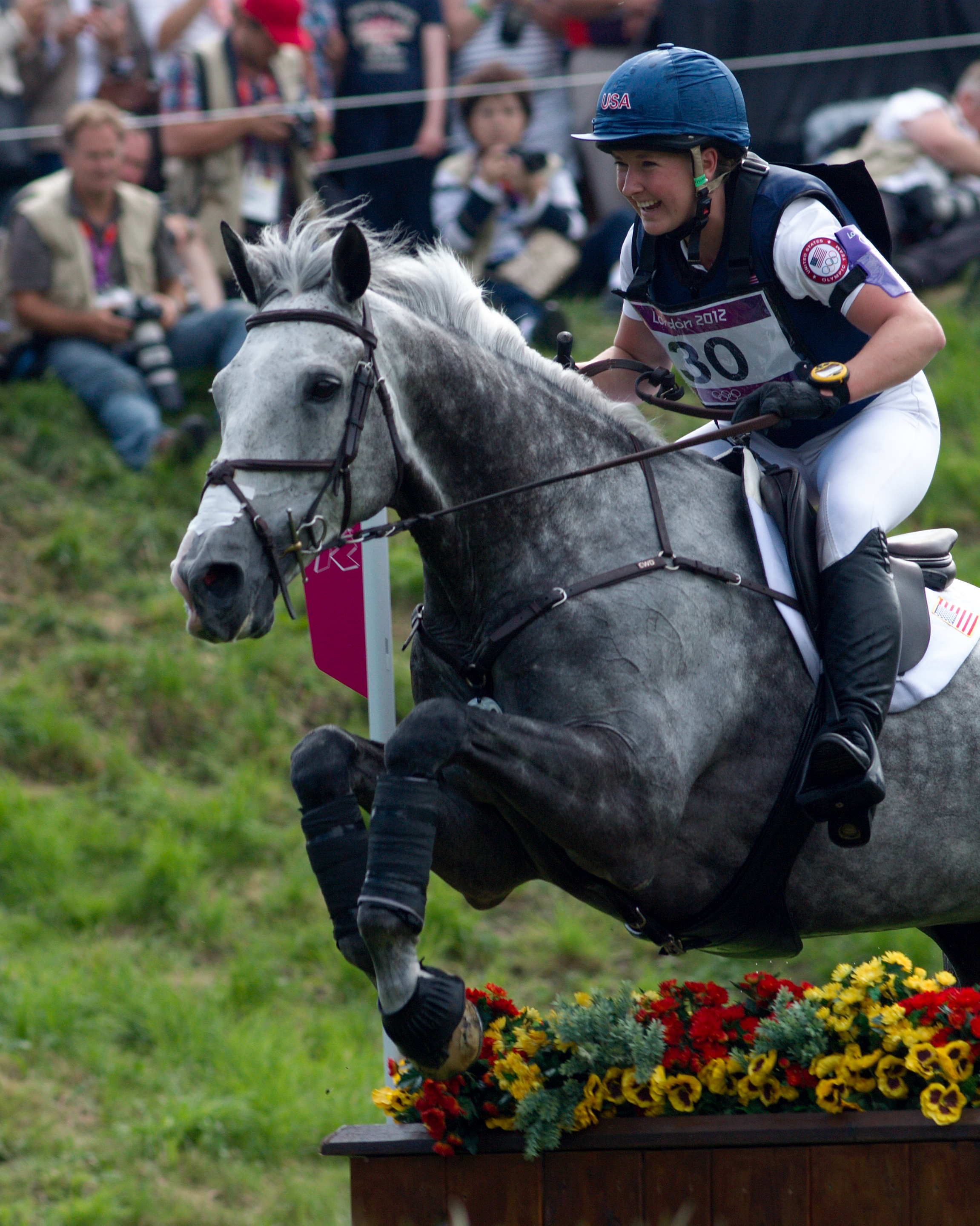 Tiana Coudray and Ringwood Magister, competing for USA, at fence 20, during the cross-country phase of the Eventing during the 2012 Olympic Games in Greenwich Park, London.